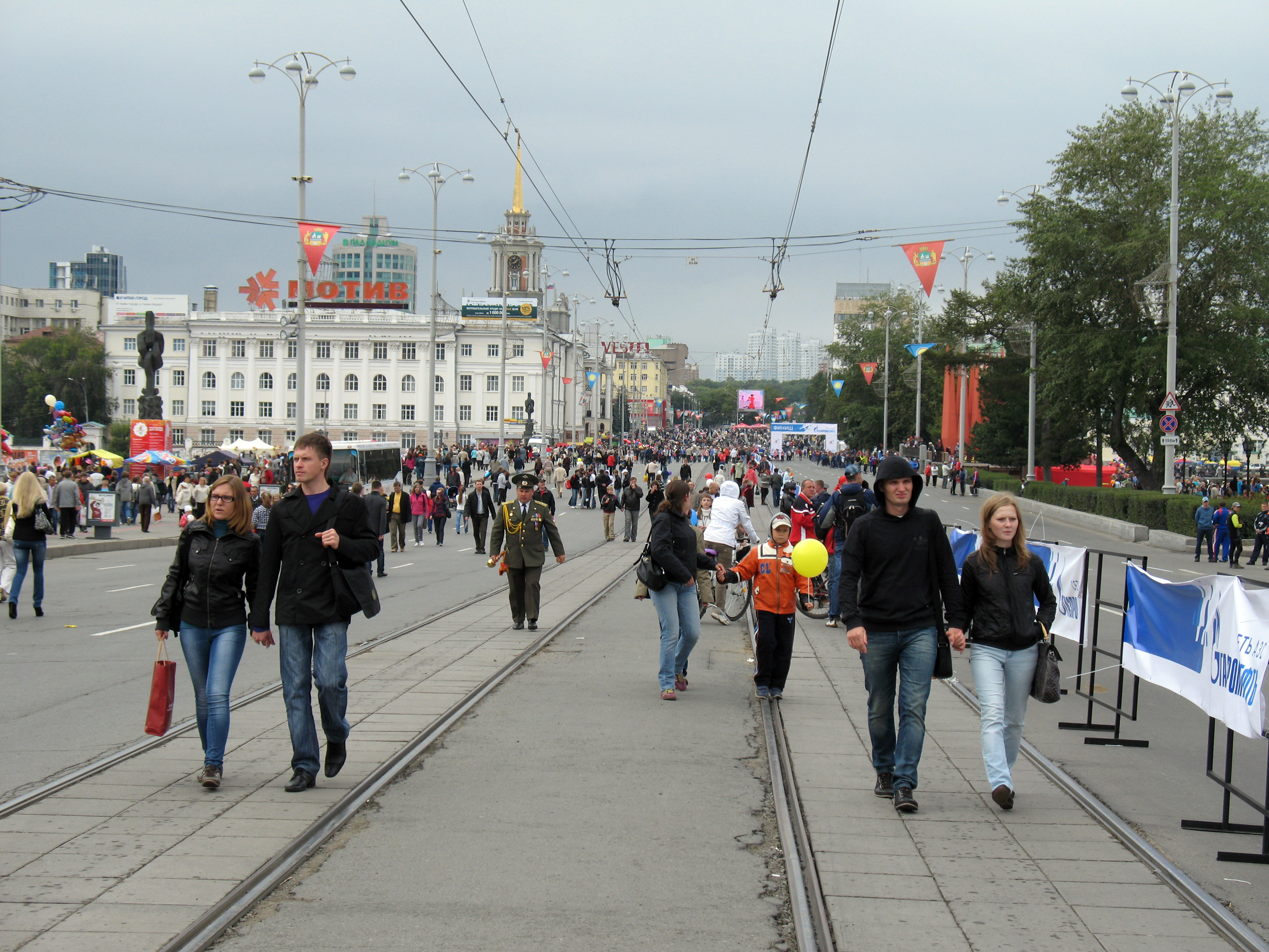 Street scene in Yekaterinburg City, Russia